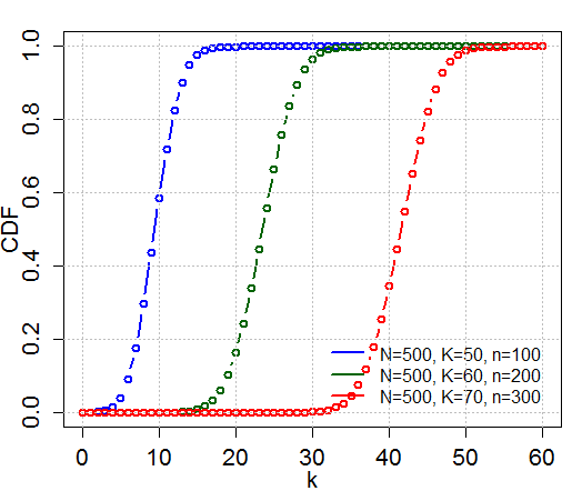 Hypergeometric CDF plot